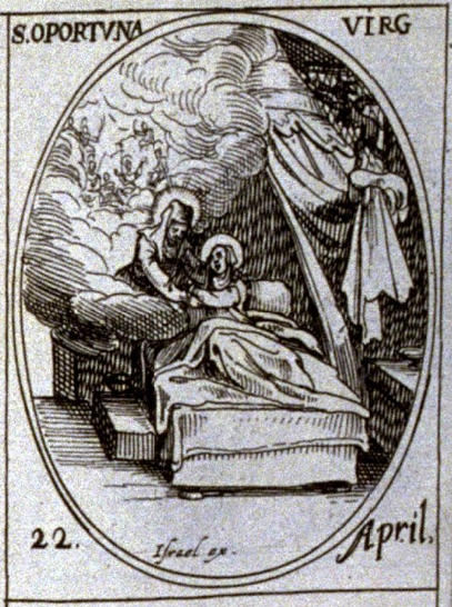 Etching and engraving, cropped to include only Saint Opportuna of Montreuil